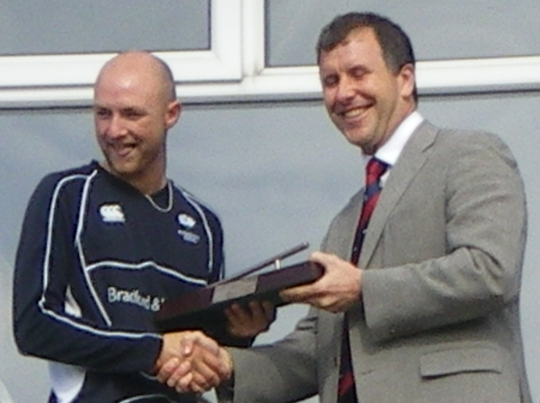 Adam Lyth receives 2008 Yorkshire CCC Young Player of the Year from Stewart Regan